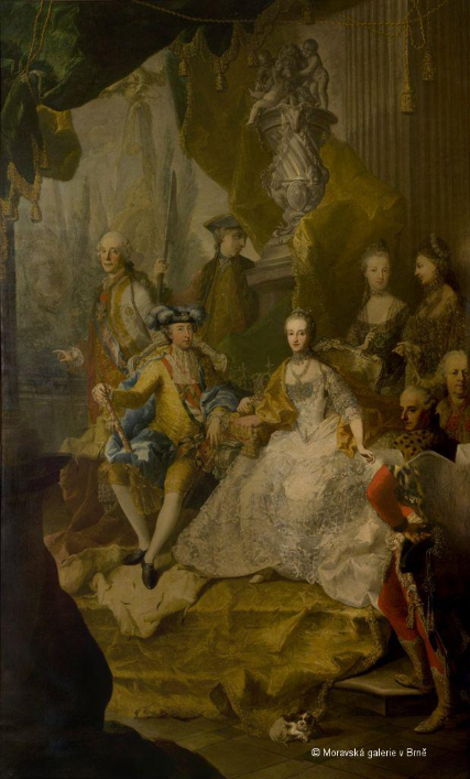 Název díla: Portrét císaře Josefa II. a jeho druhé manželky Marie Josefy Bavorské a knížat Esterházyho, Bathianyho a Liechtenštejna Známé též jako: Josef II. s manželkou Marií Josefou Bavorskou, nejbližšími dvorskými spolupracovníky a dvorními dámami Lokace: Státní zámek Valtice, Morava, Czech Republic Muzeum/držitel: Státní zámek Valtice